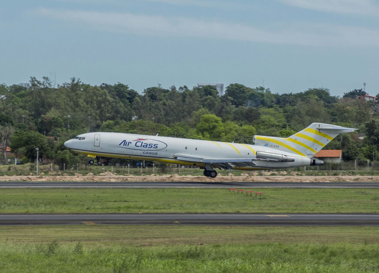 Air Class Cargo at Silvio Pettirossi International Airport